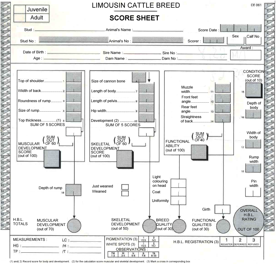 English translation of score sheet used to determine if an animal can be registered in French Limousin Herd Book.